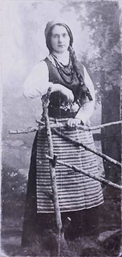 L. A. Sivitskaya (in costume), Belarusian social and cultural activist, writer